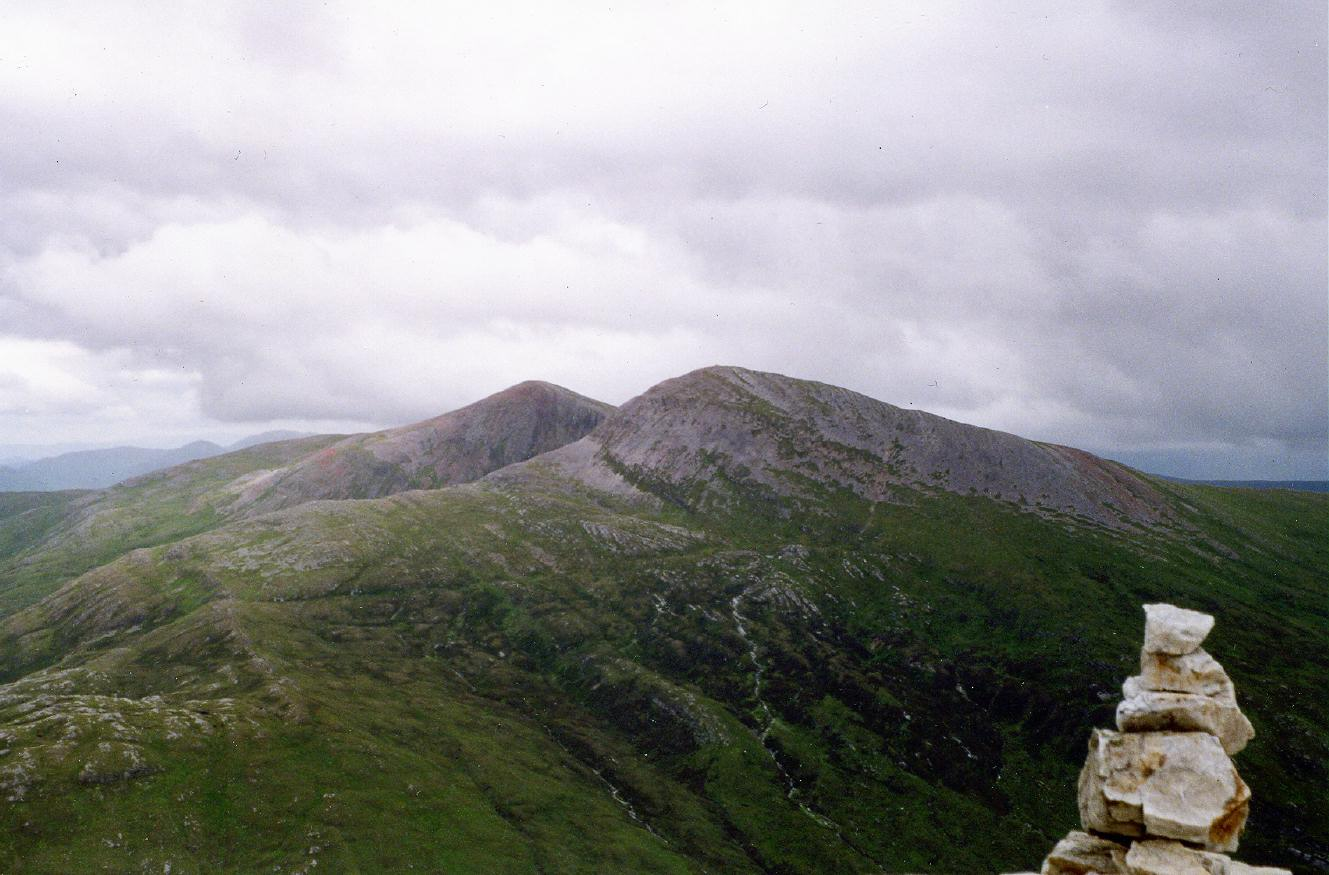 Personal picture taken by Mick Knapton